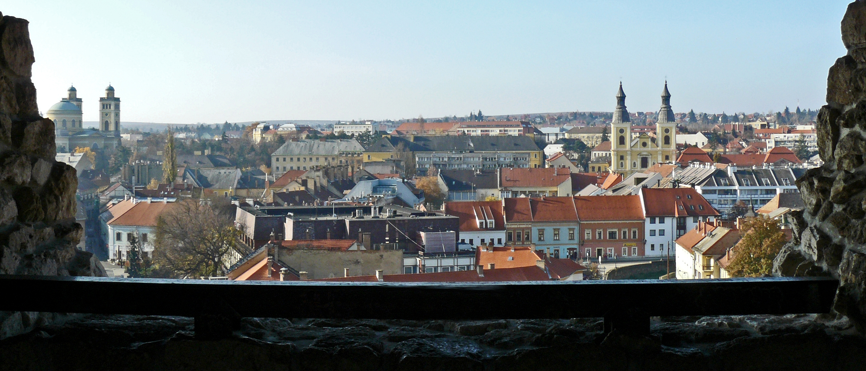 View of Eger from the Castle of the town